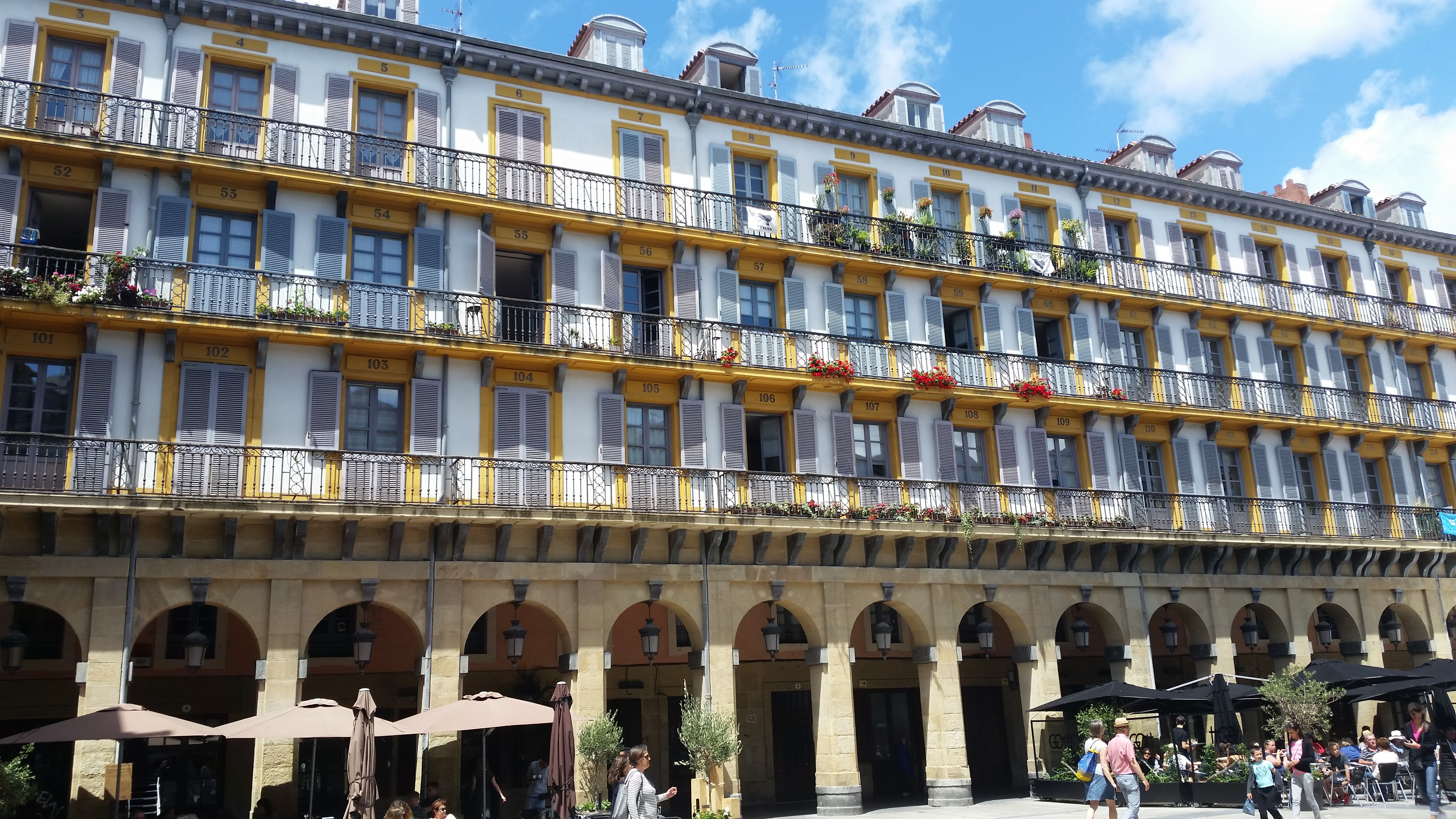 View of a building on a place